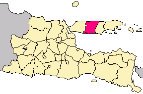 Map of Sampang county, Madura island, East Java province, Indonesia